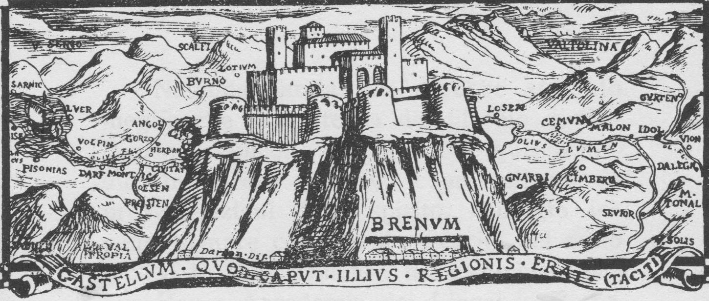 Breno and Valcamonica from the frontespice of "Intorno al castello di Breno: storia di Valle Camonica, Lago d'Iseo e vicinanze da Federico Barbarossa a S. Carlo Borromeo" of Romolo Putelli, 1915.